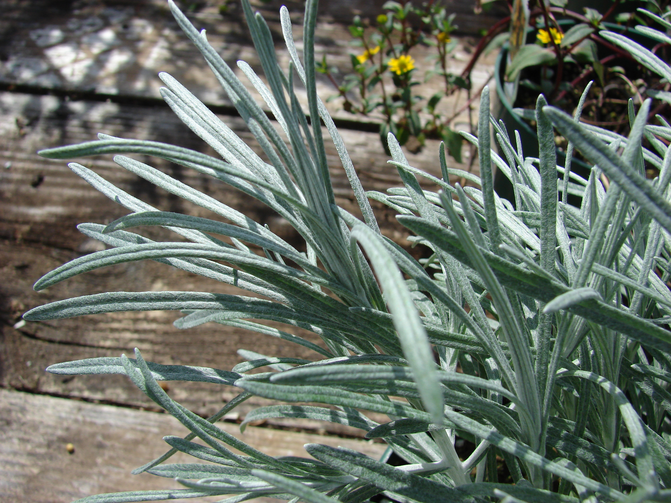 Helichrysum thianschanicum (Icicles leaves). Location: Maui, Home Depot Nursery Kahului